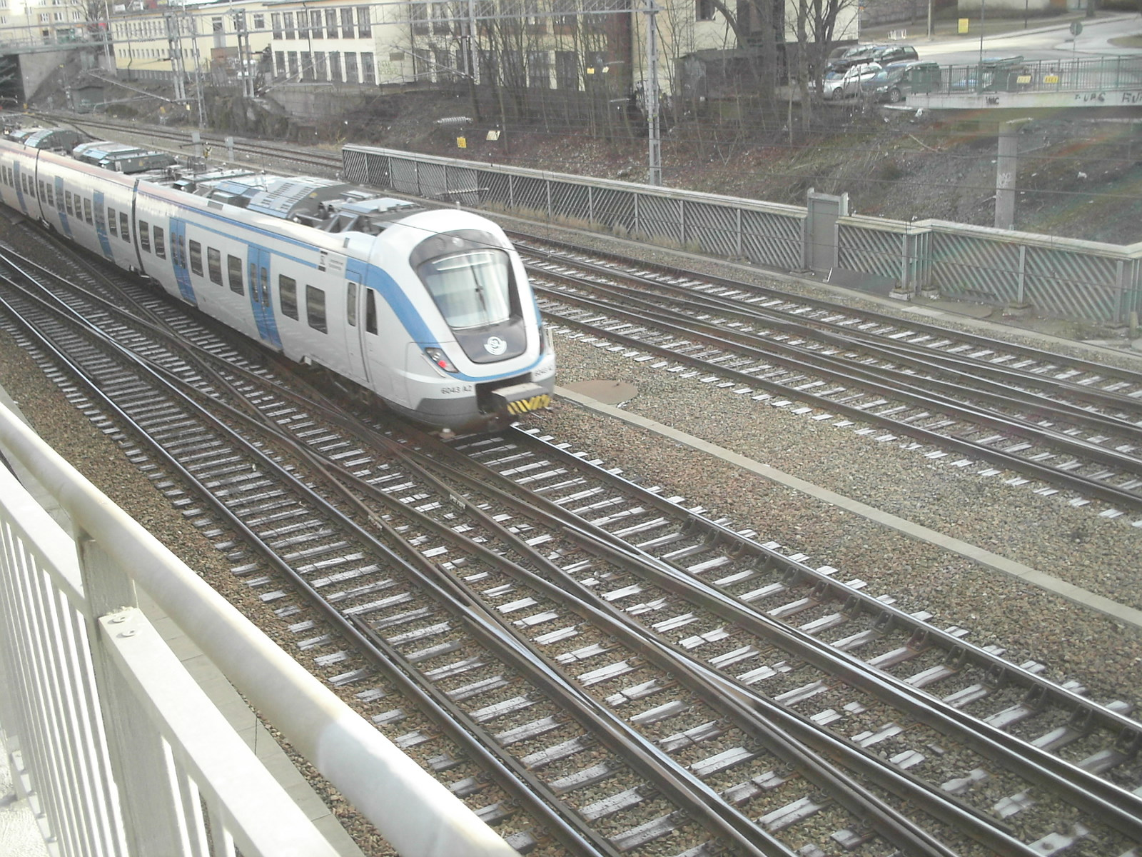 quadruple-track railway with two diamond rail crossovers in Stockholm